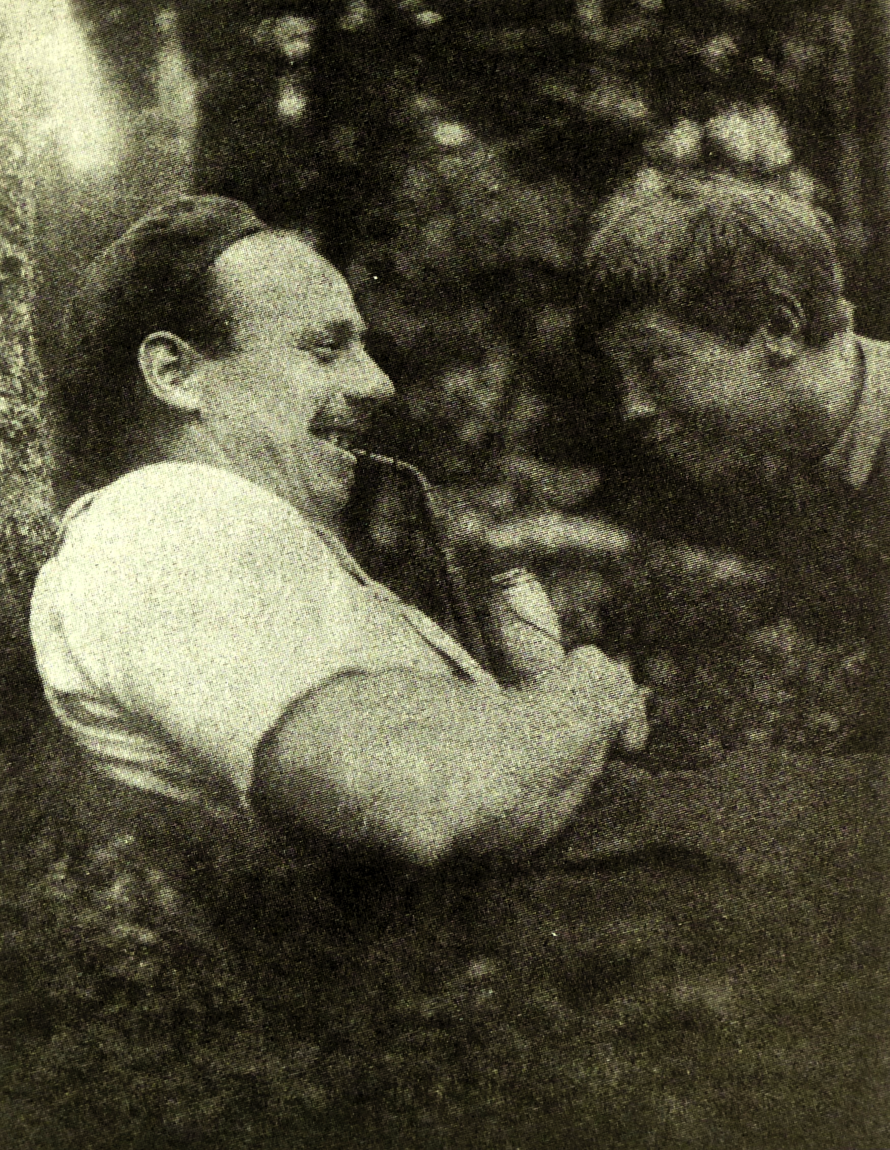 Martin Luserke (left), the progressive German pedagogue, bard, writer, and theatre maker. On the right one of his pupils. The picture was probably made in the early 1920s in Thuringia Forest, while he served as principal at Freie Schulgemeinde in Wickersdorf near Saalfeld.